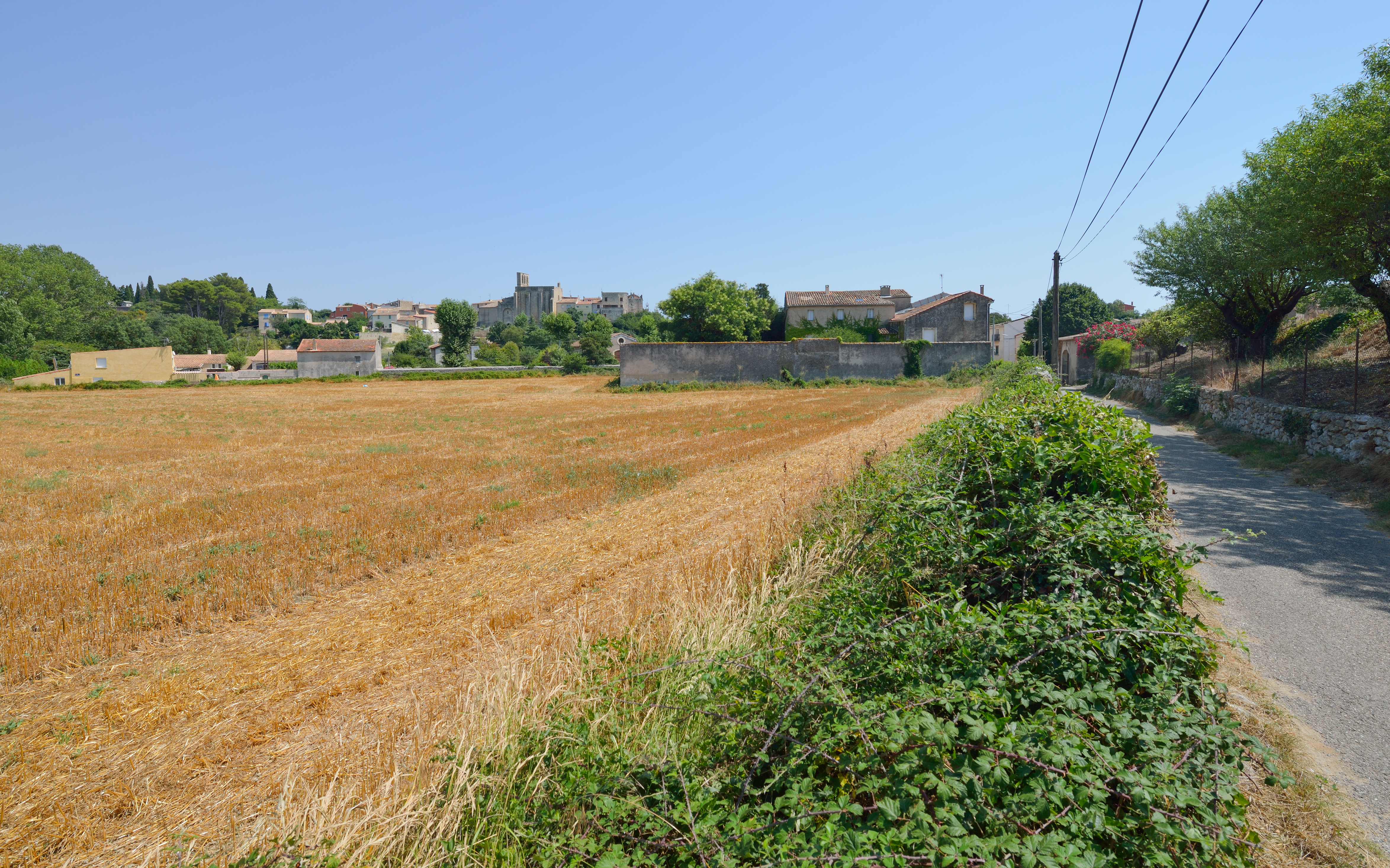 View on the village of Montbazin from Northwest. Montbazin, Hérault, France.